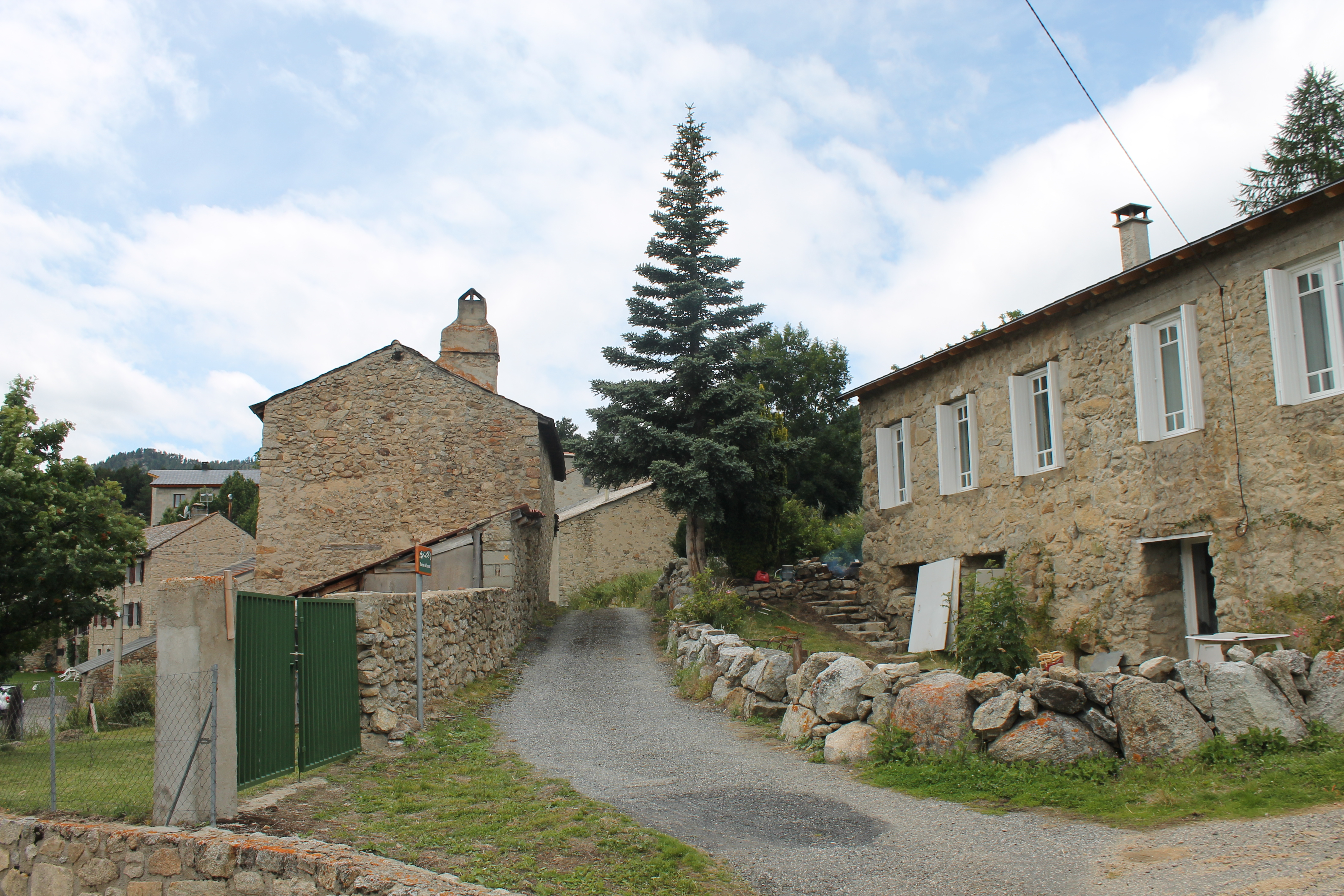 Caudiès-de-Conflent